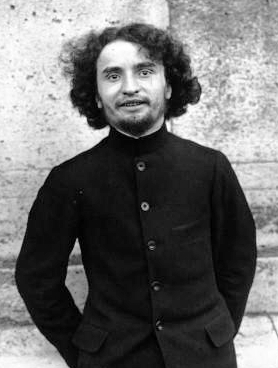 French painter and sculptor Pierre Dionisi (1904-1976).